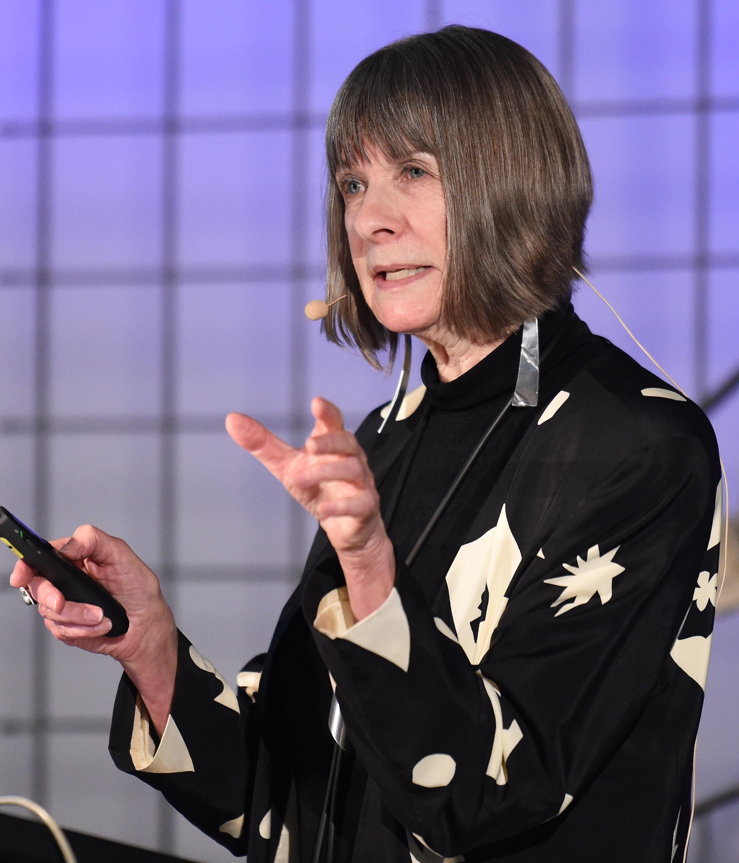 Dean Falk Germany